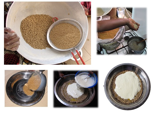 A millet porridge (lakh in Wolof - names vary between languages), boiled with water and large millet flour pellets (araw/arraw in Wolof) made from soungouf (millet flour) and served mixed with butter and topped with sweetened fermented milk or yoghurt. Note: Millet produces a seed with a hard and inedible hull. It must be milled by hand or by machine to remove this hull before it can be ground into millet flour. Millet-based recipes in Africa are based on sifted millet flour or rolled millet flour pellets, not on unprocessed millet seeds This is an image of food from Senegal